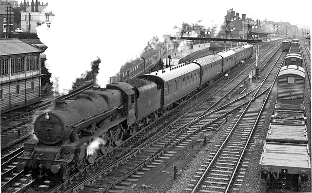 'Jubilee' Class 4-6-0 'Leander' at Normanton. The celebrated preserved 'Jubilee', No. 45690, in a disreputable state towards the end of its working life, on a Down Sheffield - Leeds local train leaving Normanton. This was then still a major junction, where the main ex-Midland Sheffield - Leeds line joined with the ex-Lancashire & Yorkshire main line from Manchester via the Calder Valley and Wakefield, also the ex-North Eastern main line to York via Church Fenton. Until the 'Beeching Revolution' and the later disappearance of the Coal Industry, Normanton was a train-watcher's paradise but in 2010 the scene is totally different, the residual Normanton Station being virtually on a backwater.